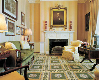 Lincoln Room at Blair House, the state guest house of the U.S. president.